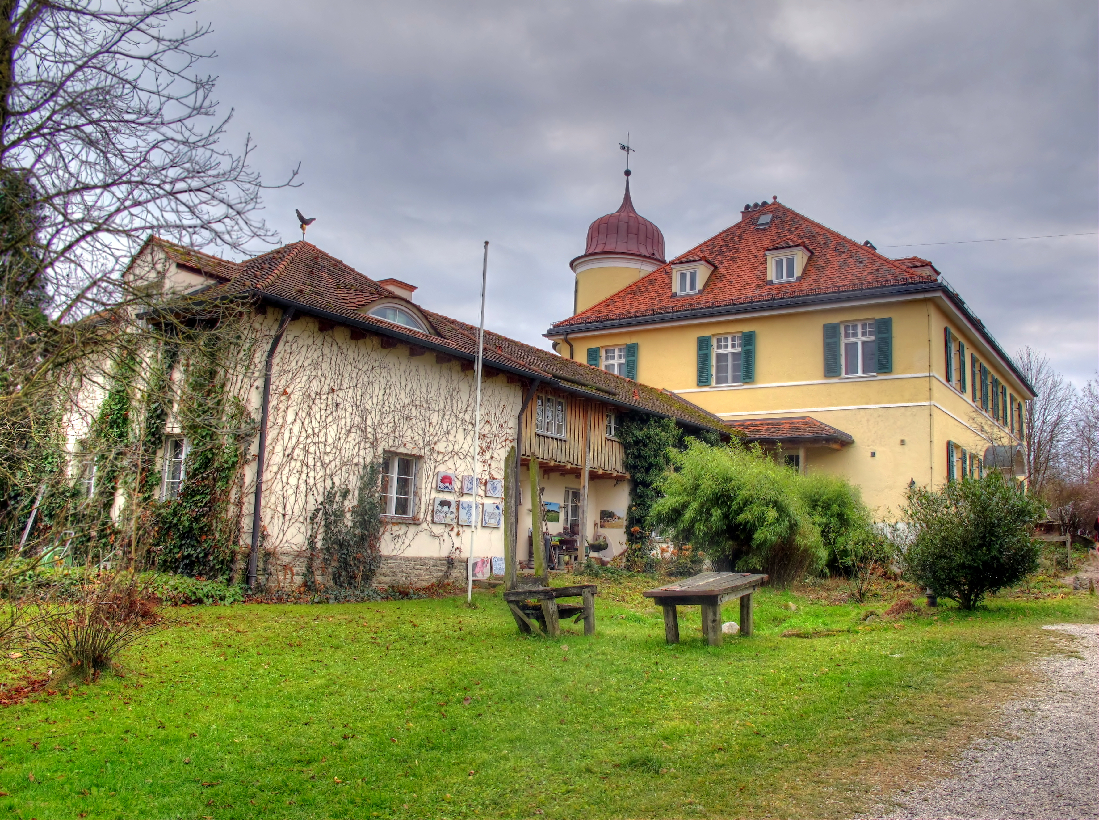 Germany, Bavaria